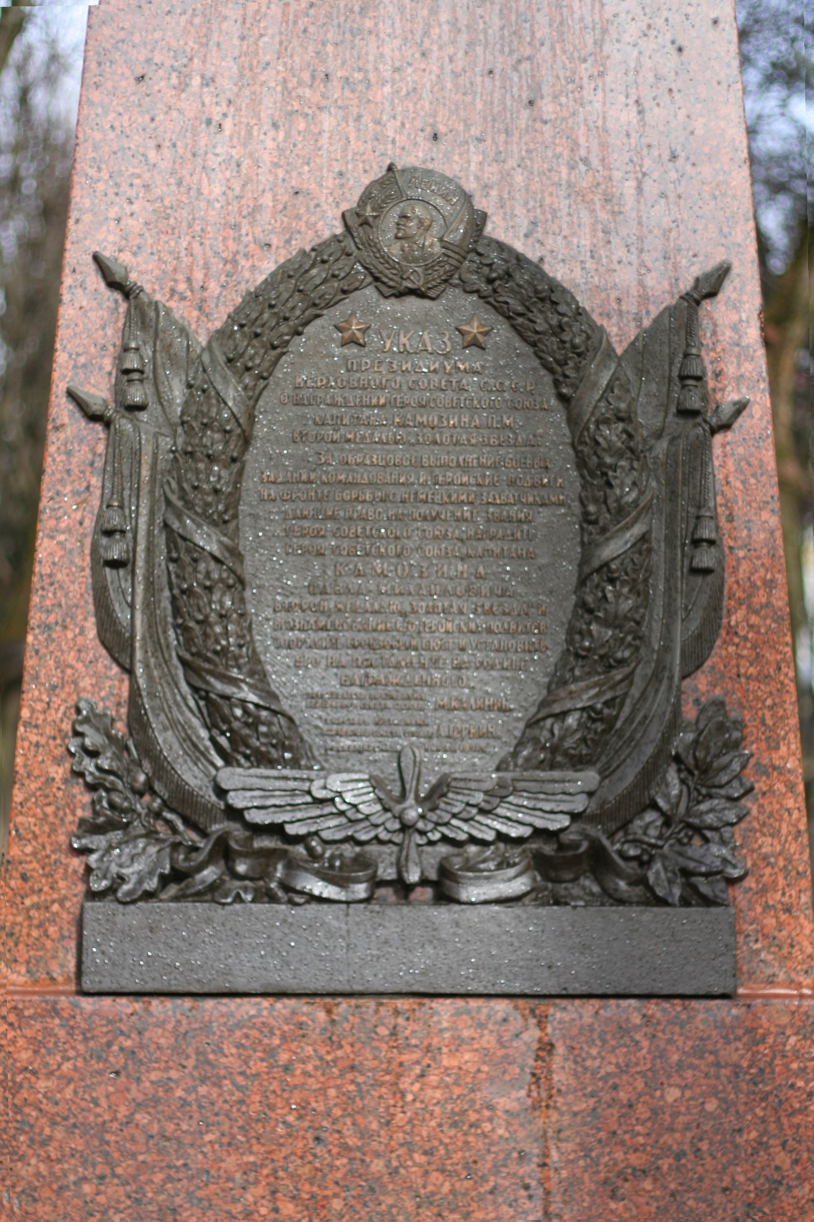 Memorial to two times Hero of Soviet Union, pilot fighter P. M. Kamozin in Bryansk. Text at memorial.